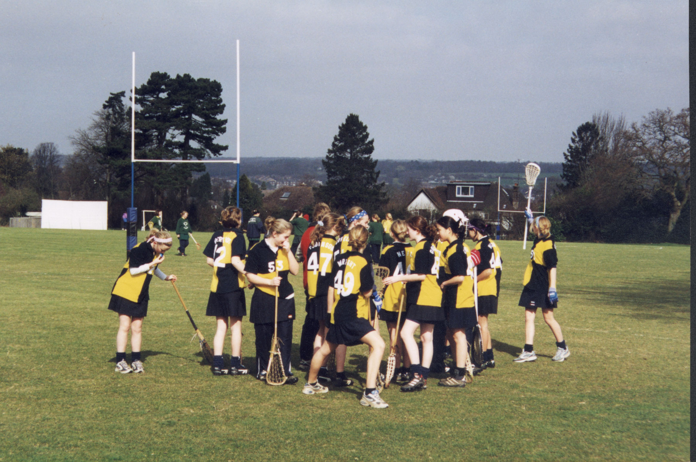 Photo taken of the Benenden Lacrosse team at Milton Keynes (National School's Lacrosse tournament in Berkhamstead, 2000 by Anya Nixon